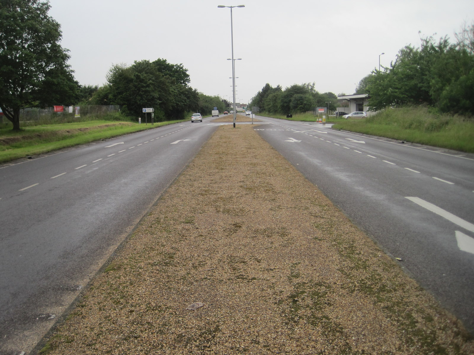 Holt railway station (site), NorfolkOpened in 1884 on what became part of the Midland and Great Northern Railways' joint line across North Norfolk from Melton Constable to Yarmouth via Sheringham. From 1884 to 1887 it was a terminus from Melton Constable, until the line was extended. The line and station closed in 1964 and all trace was erased by the building of the A148 Holt by-pass. View south west towards Melton Constable taken from approximately the site of the former level crossing. The North Norfolk Railway opened a replacement Holt station in 1987 - see TG0939 : Holt NNR railway station, Norfolk.